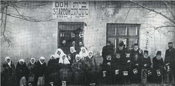 Residents of the Jewish old age home in Chelm in 1918